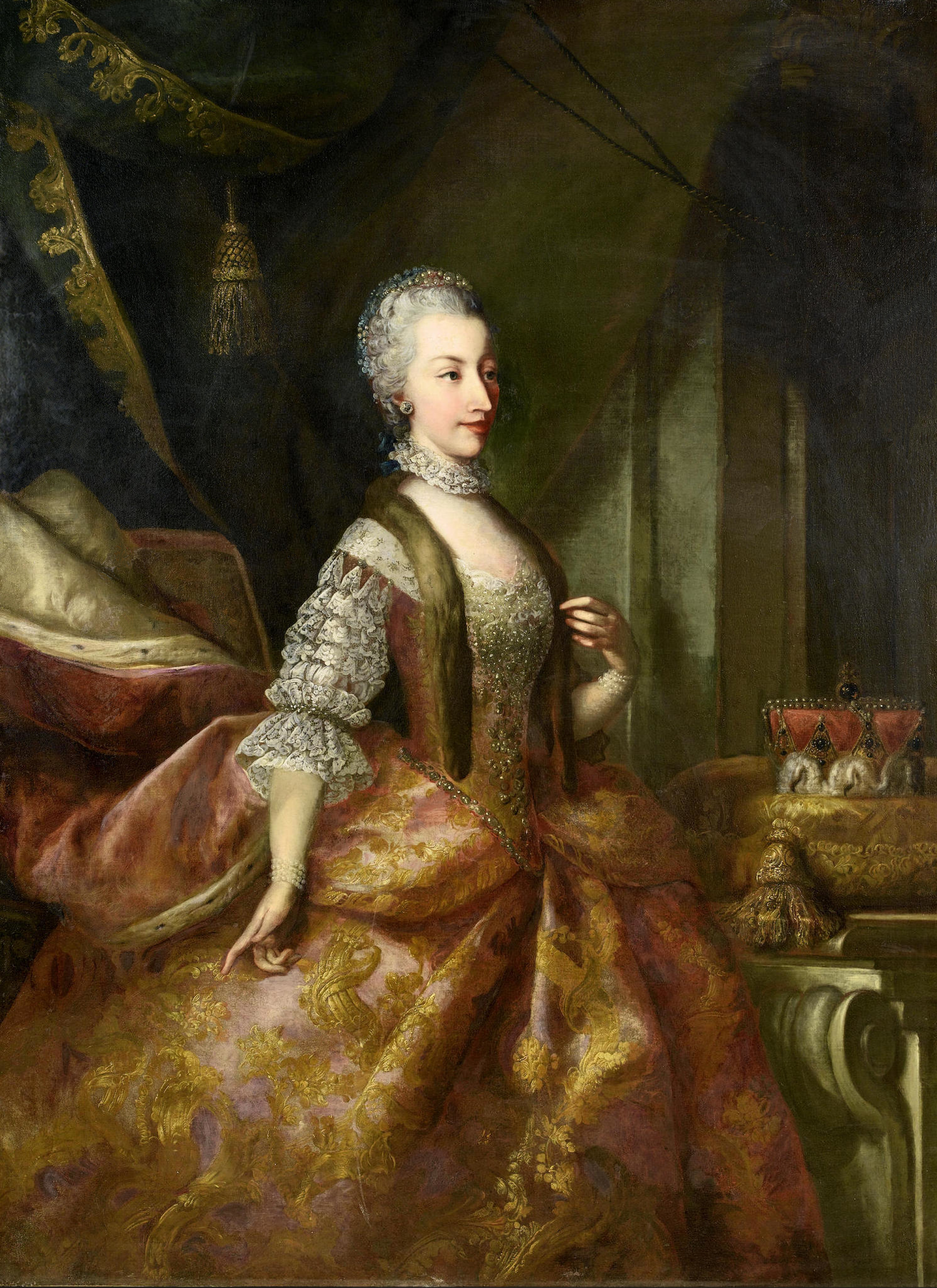 The sitter is not Archduchess Maria Amalia of Austria (1746-1804). It has been suggested that it could be one of the daughters of Emperor Joseph I, either Maria Josepha of Austria (1699-1757) or Maria Amalia of Austria (1701-1756).